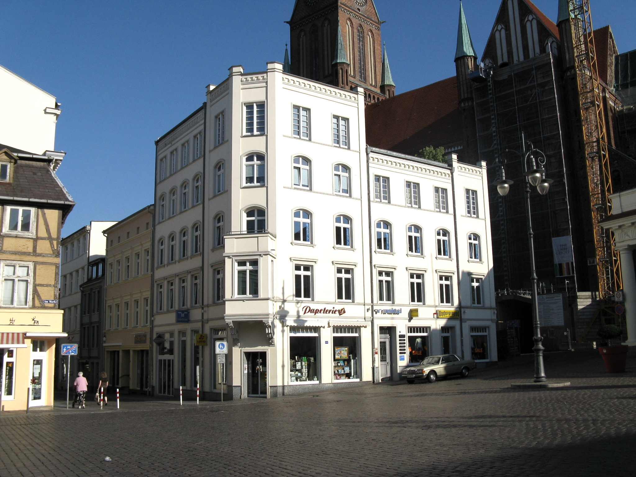 Building at market in Schwerin, Germany - Am Markt 2